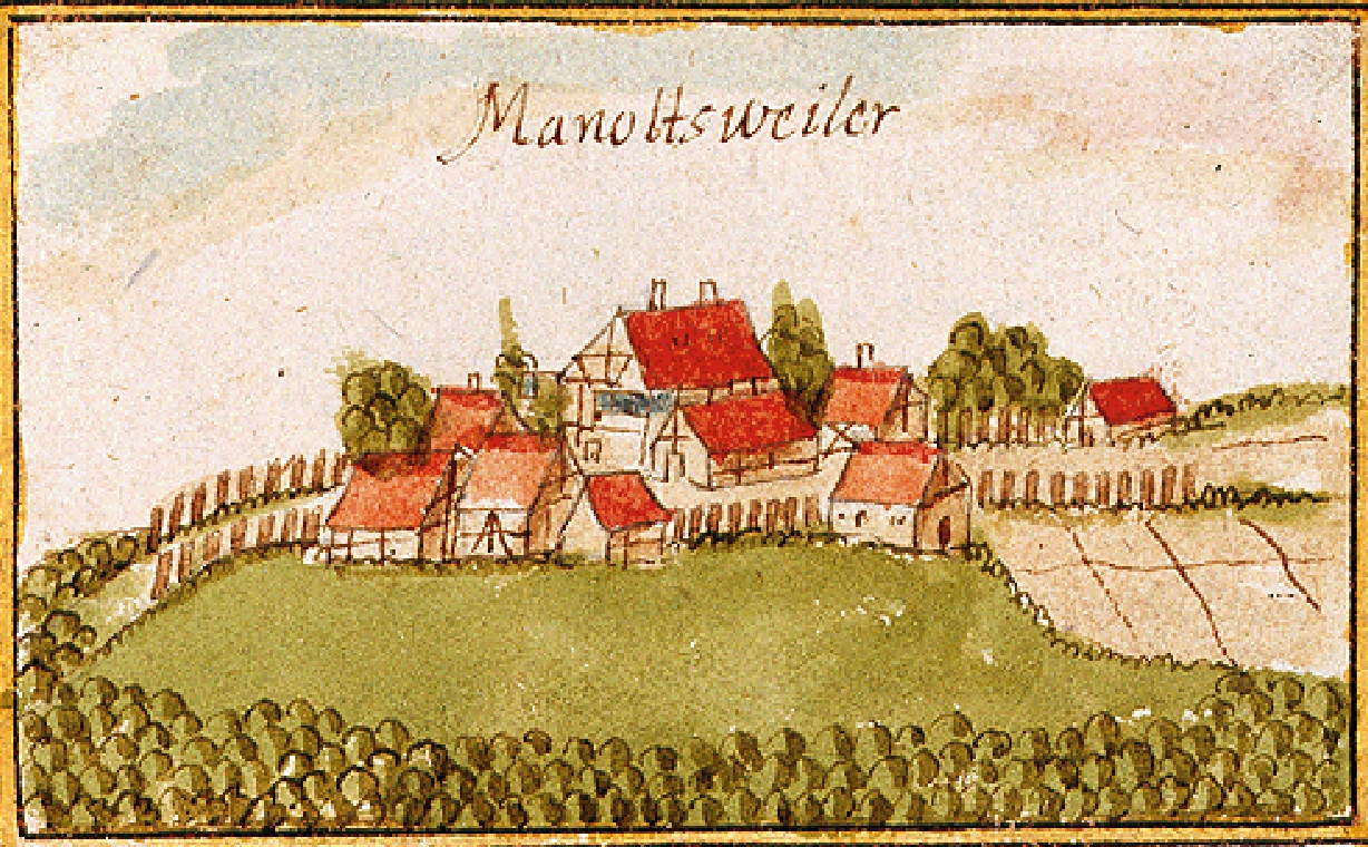 Manolzweiler, drawing from Andreas Kieser's Forstlagerbuch, 1685